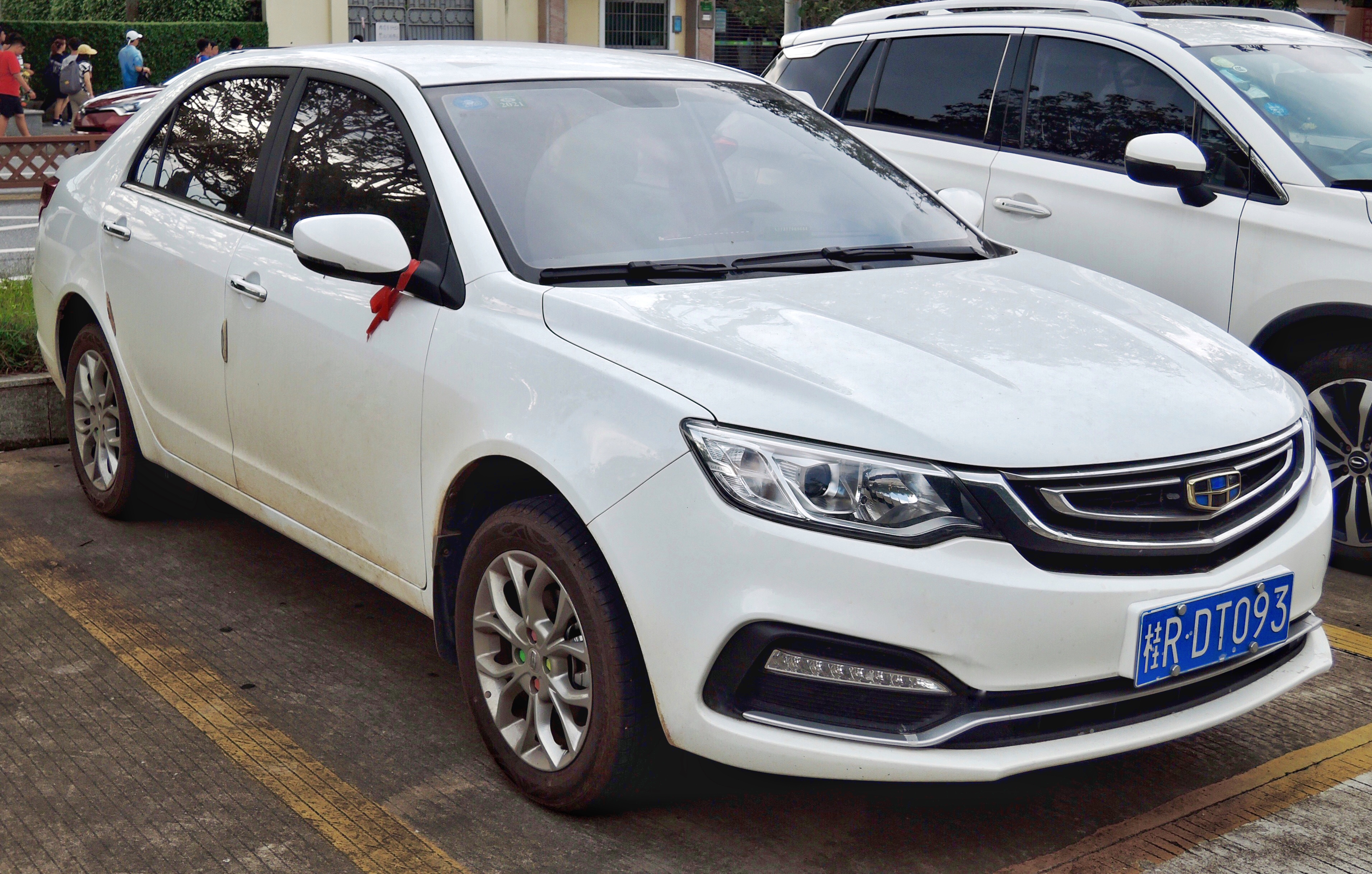 A 2019 Geely Yuanjing taken in Zhongshan, Guangdong province, China. 中文（中国大陆）: 一辆2019年的吉利远景，摄于中国广东省中山市。